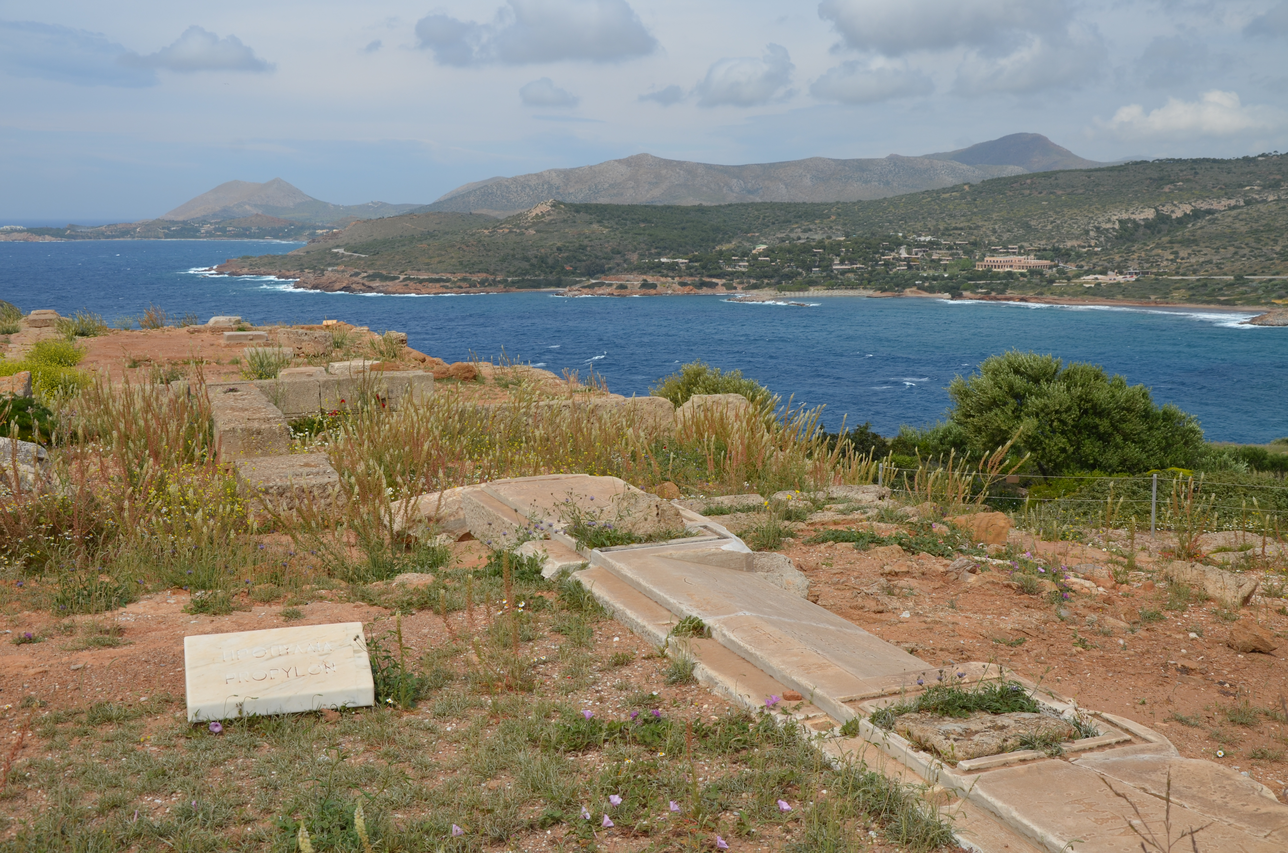 The propylaea, a monumental gateway of poros and marble, to the north of the temple, through which the sacred precinct of Poseidon was entered, Cape Sounion, Greece